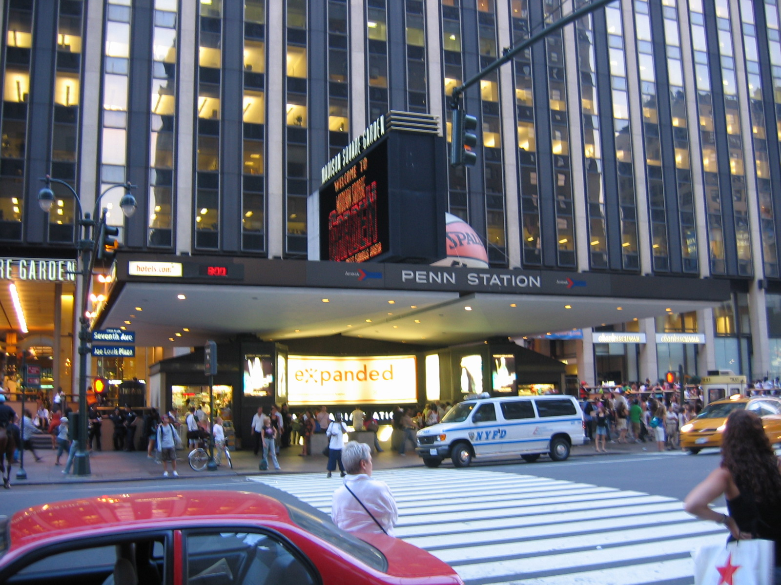 I take this nice picture of Pennsylvania Station/ Madison Square Garden entrance back in 2005.. Look at my user page for licensing details, forsoo. - Rickyrab.